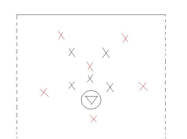 Image for box and one, man down zone defense in lacrosse, against a 2-3-1